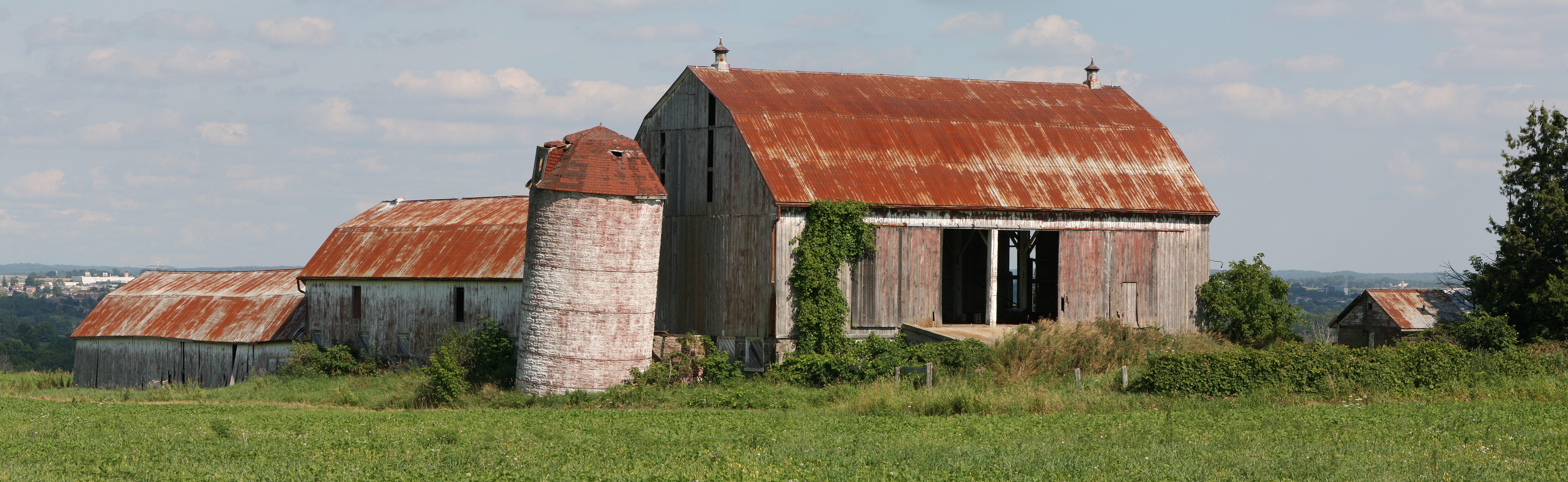 Barn near Newmarket, Ontario, Canada. Demolished in March, 2009. Created from 4 images taken at 105mm, 1/100s, f14, ISO 100